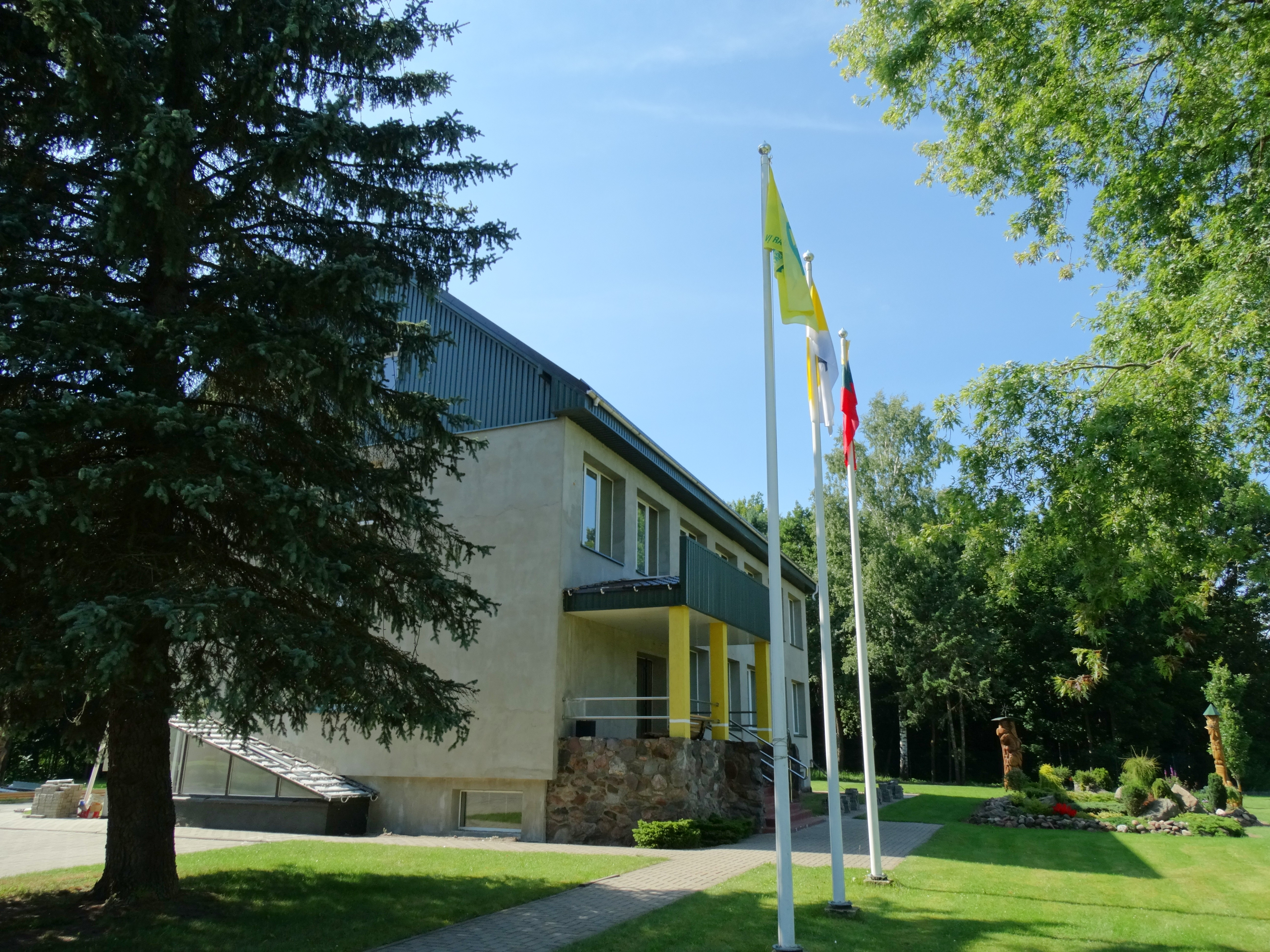 Forest enterprise, Radviliškis, Lithuania